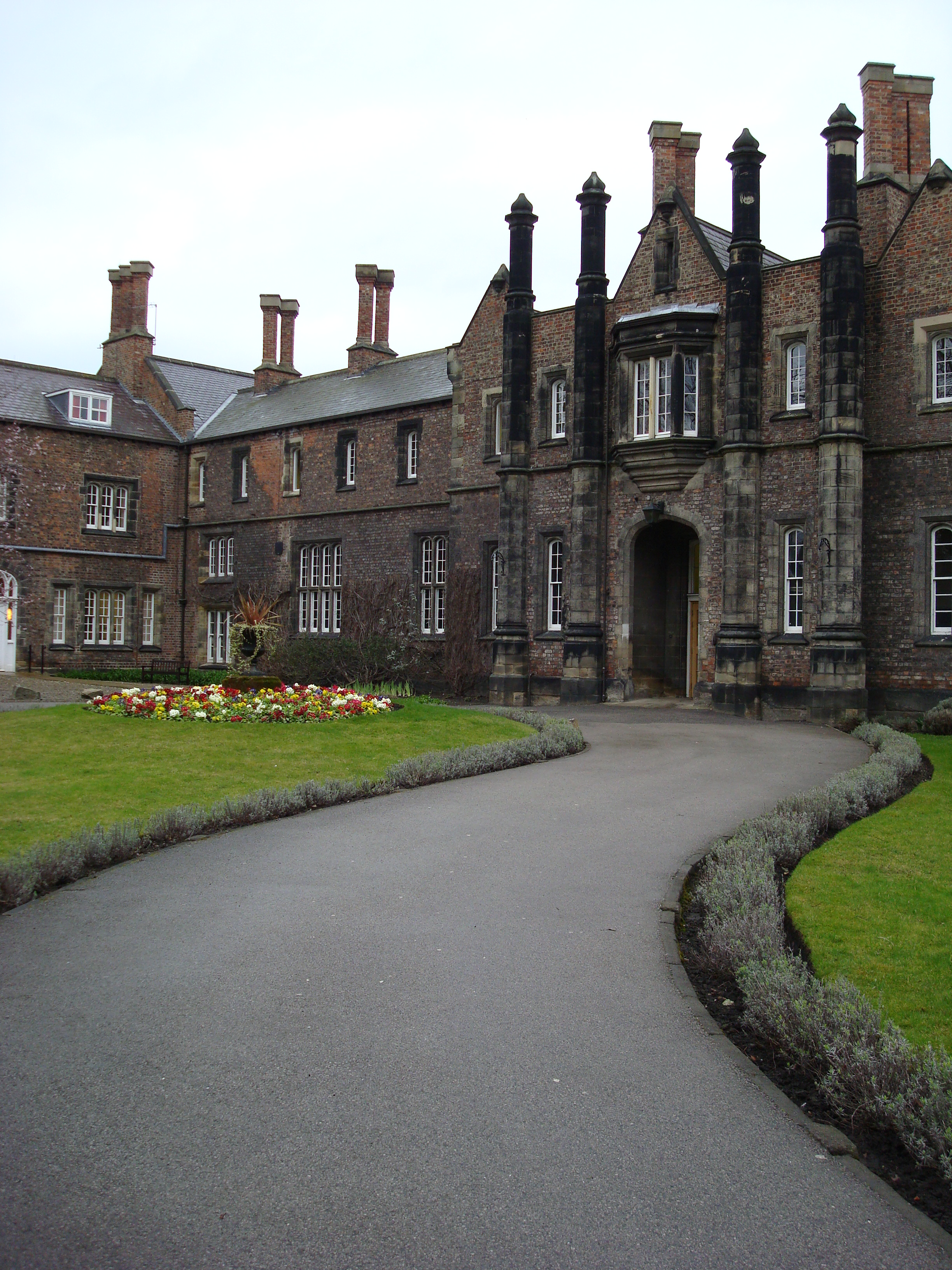 picture of YSJ campus building